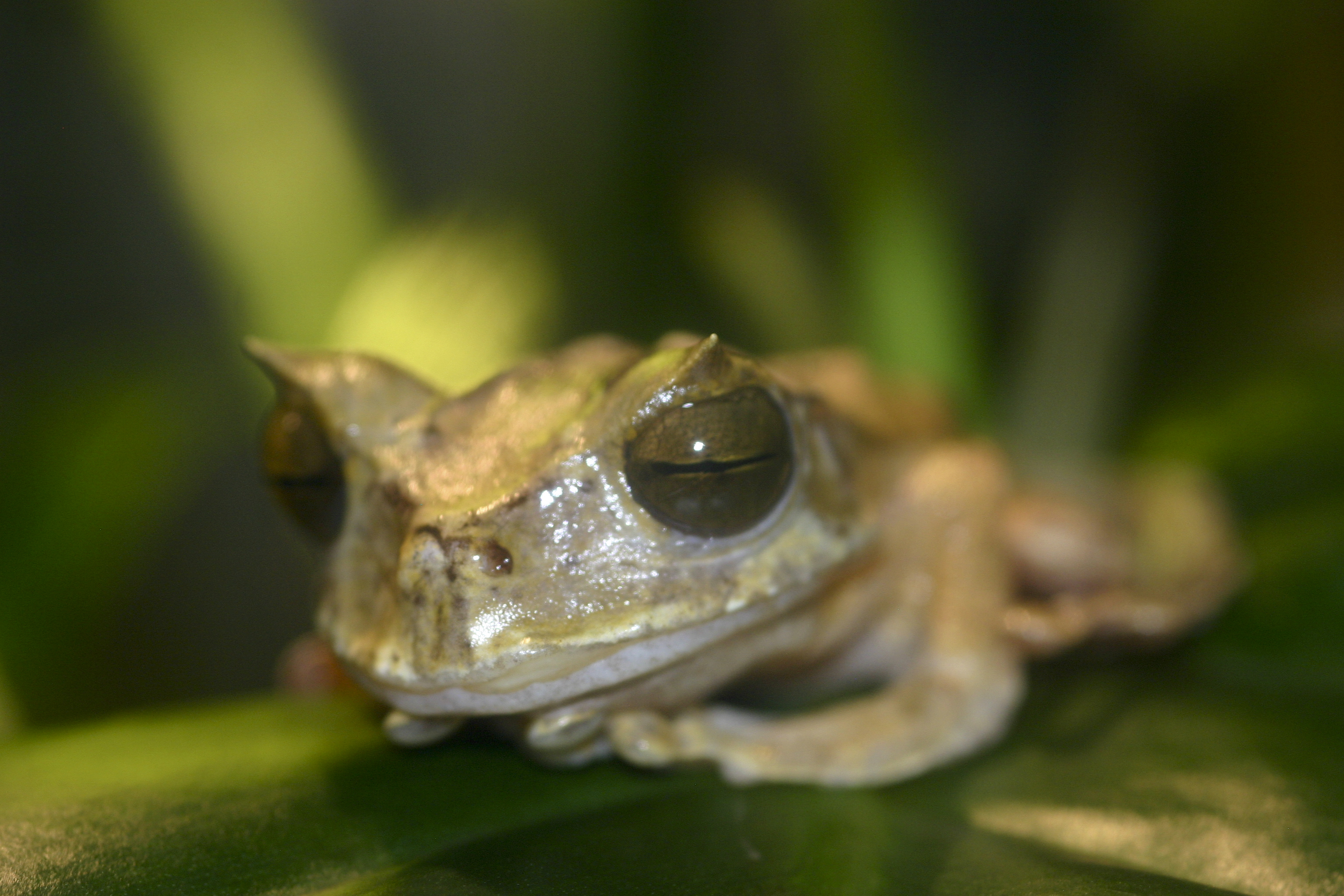 Gastrotheca cornuta